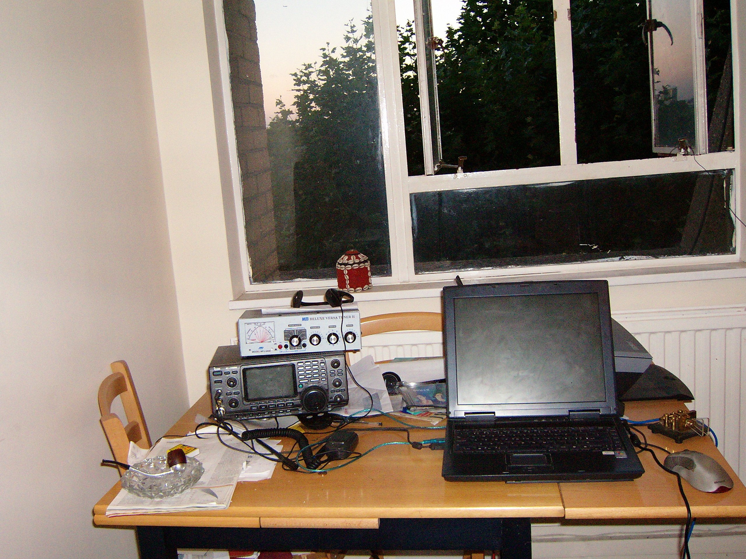 The operating area, or "shack", of amateur radio station G0RTN, operator Gerry Lynch, in Central London.